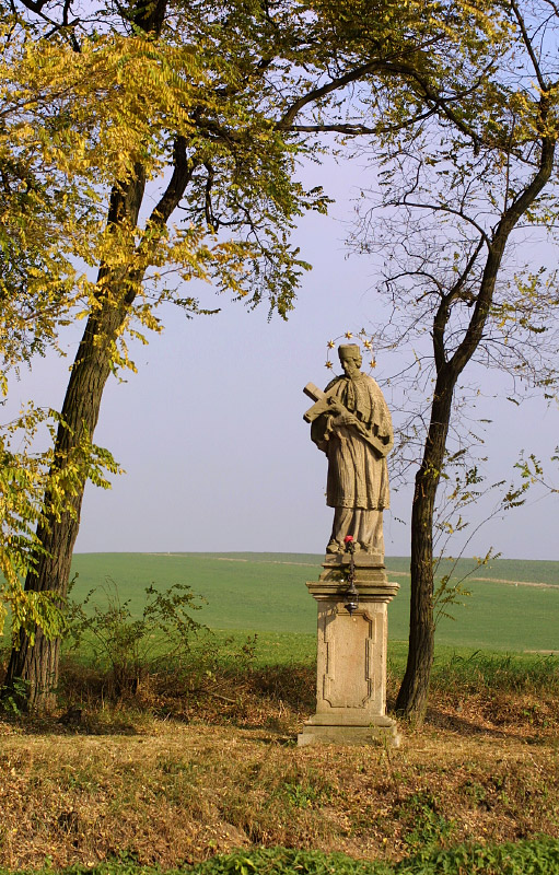 Baroque statue of St John Nepomucene in Chříč, Czech Republic.